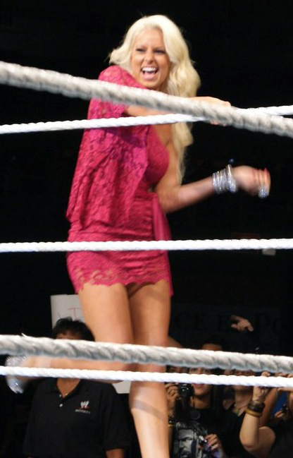 WWE's Maryse Oullett.